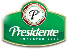 Logo of Presidente Beer